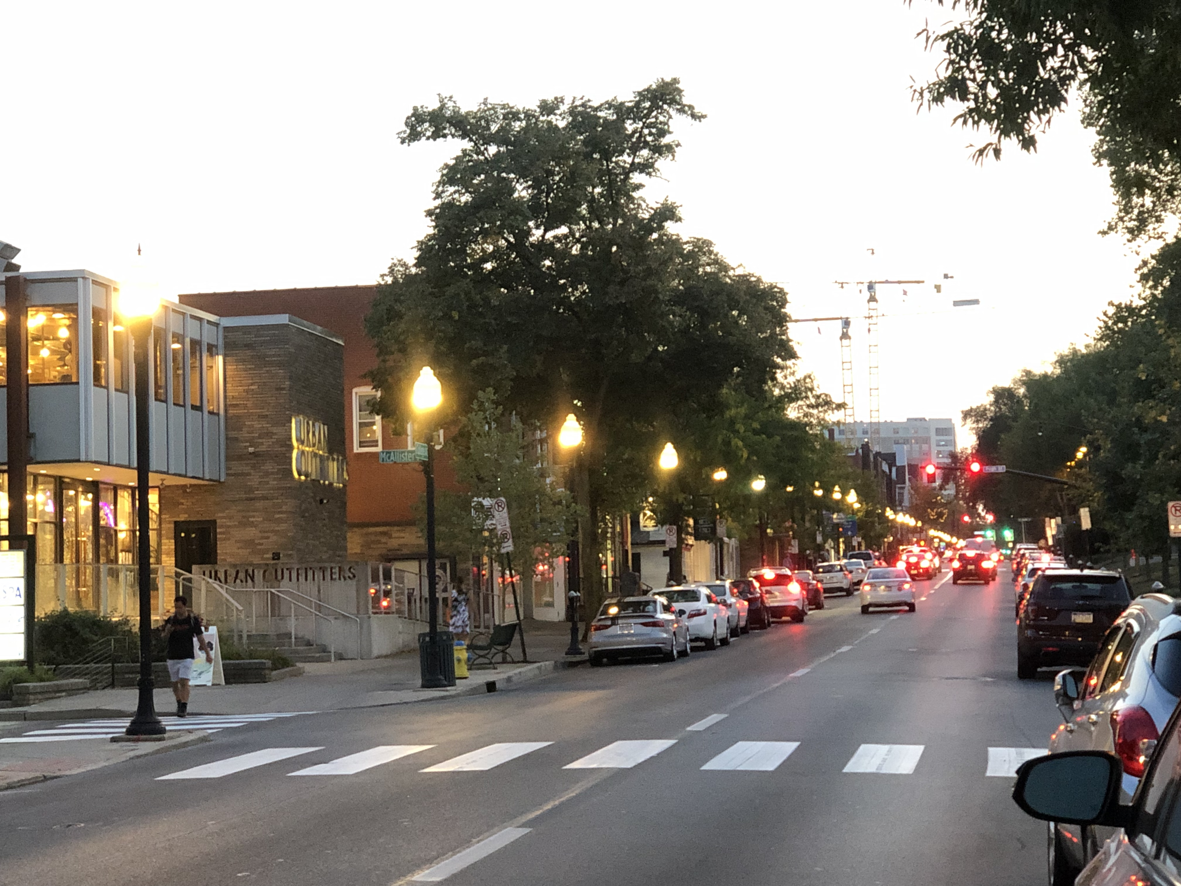 Downtown State College